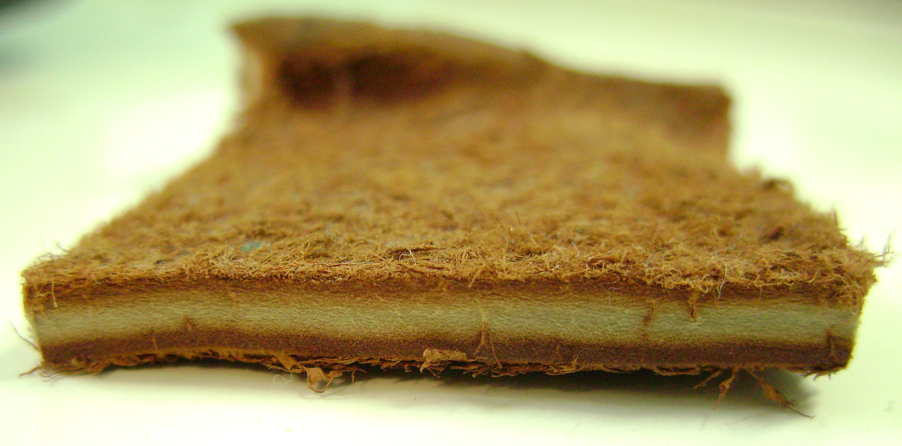 Piece of beluga leather (Delphinapterus leucas).